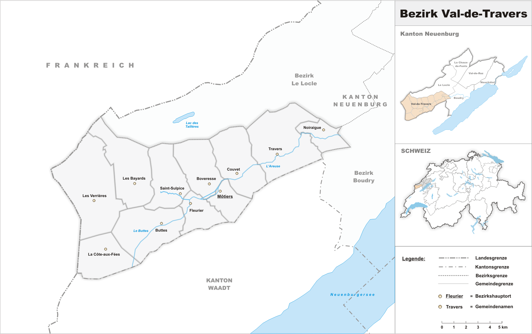 Municipalities in the district of Val-de-Travers